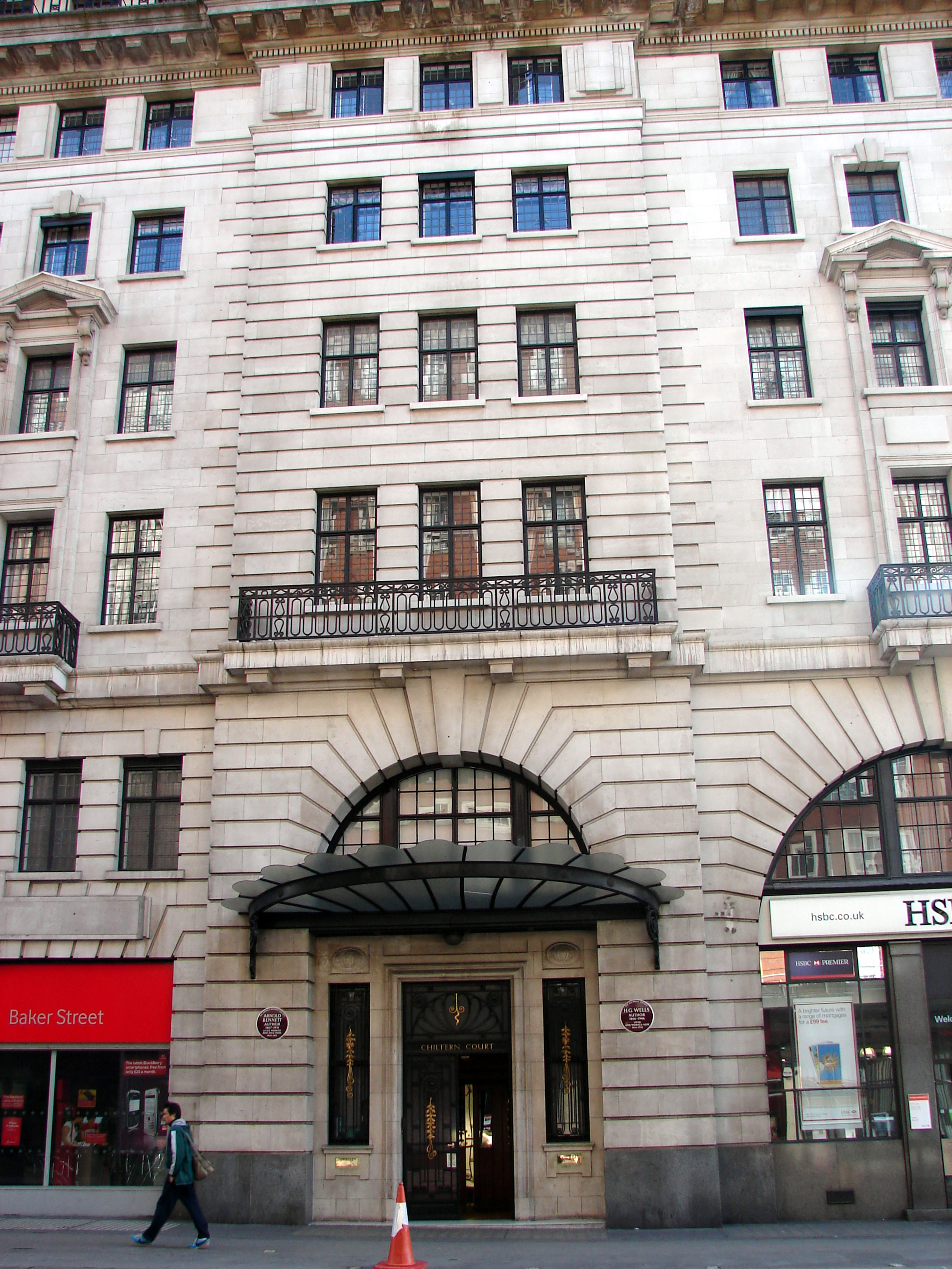 Chiltern Court building on Baker Street with plaques to Arnold Bennett (Left) and H.G. Wells (Right)